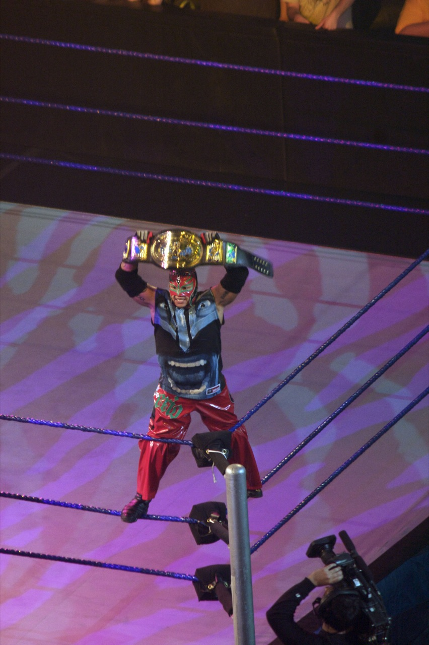 Professional wrestler Rey Mysterio